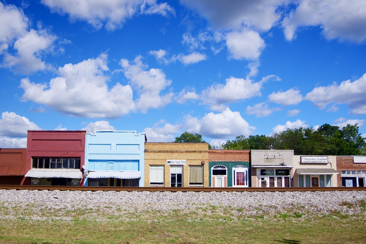 Buildings along Railroad Street in Falkville, Alabama, United States.